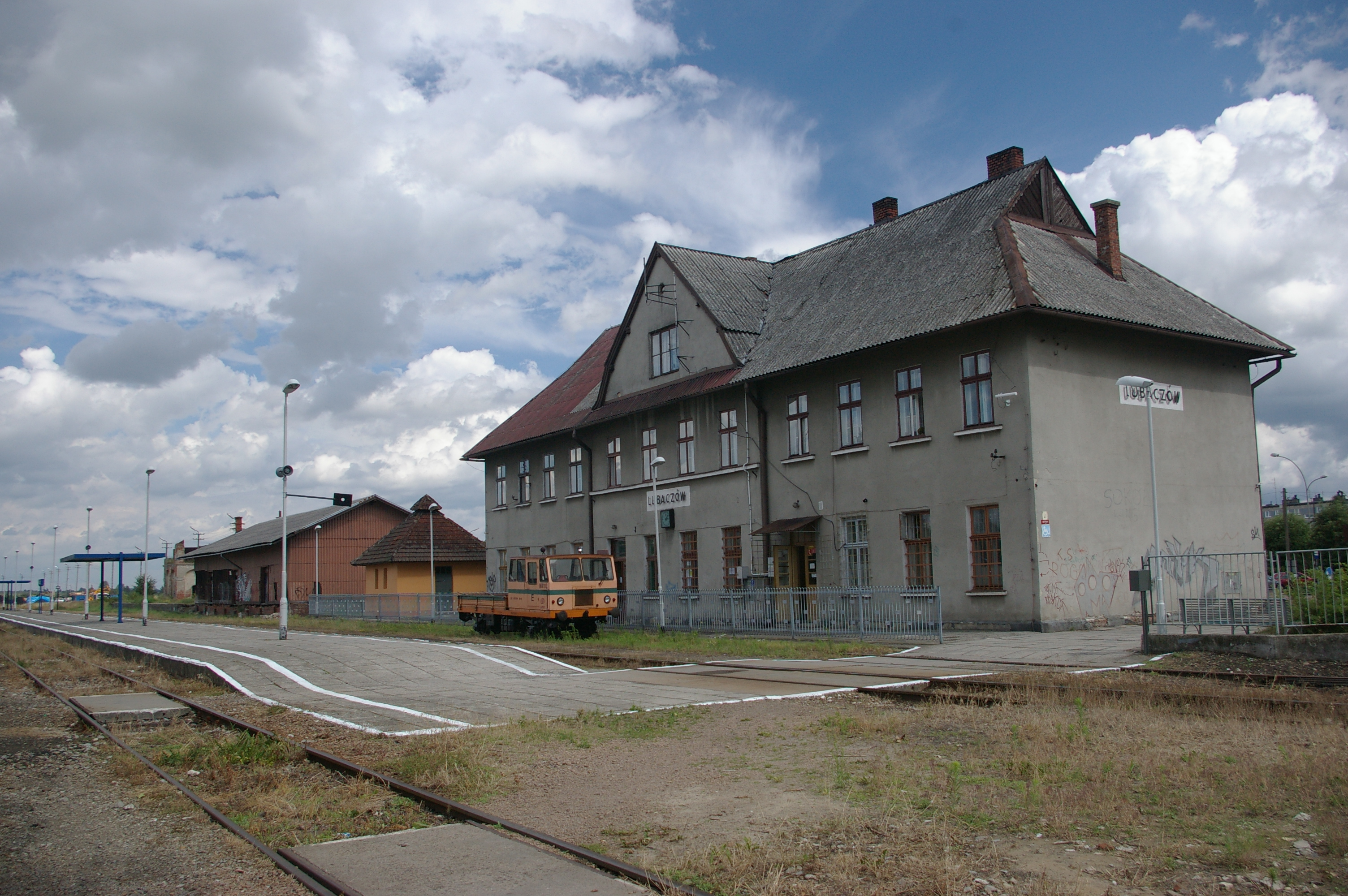 Train station in Lubaczów (Poland)